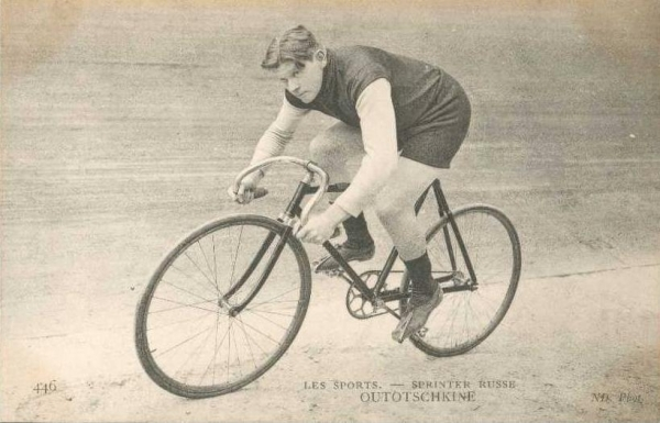 Sergey Utochkin - a sportsman and early 20th-century aviator.